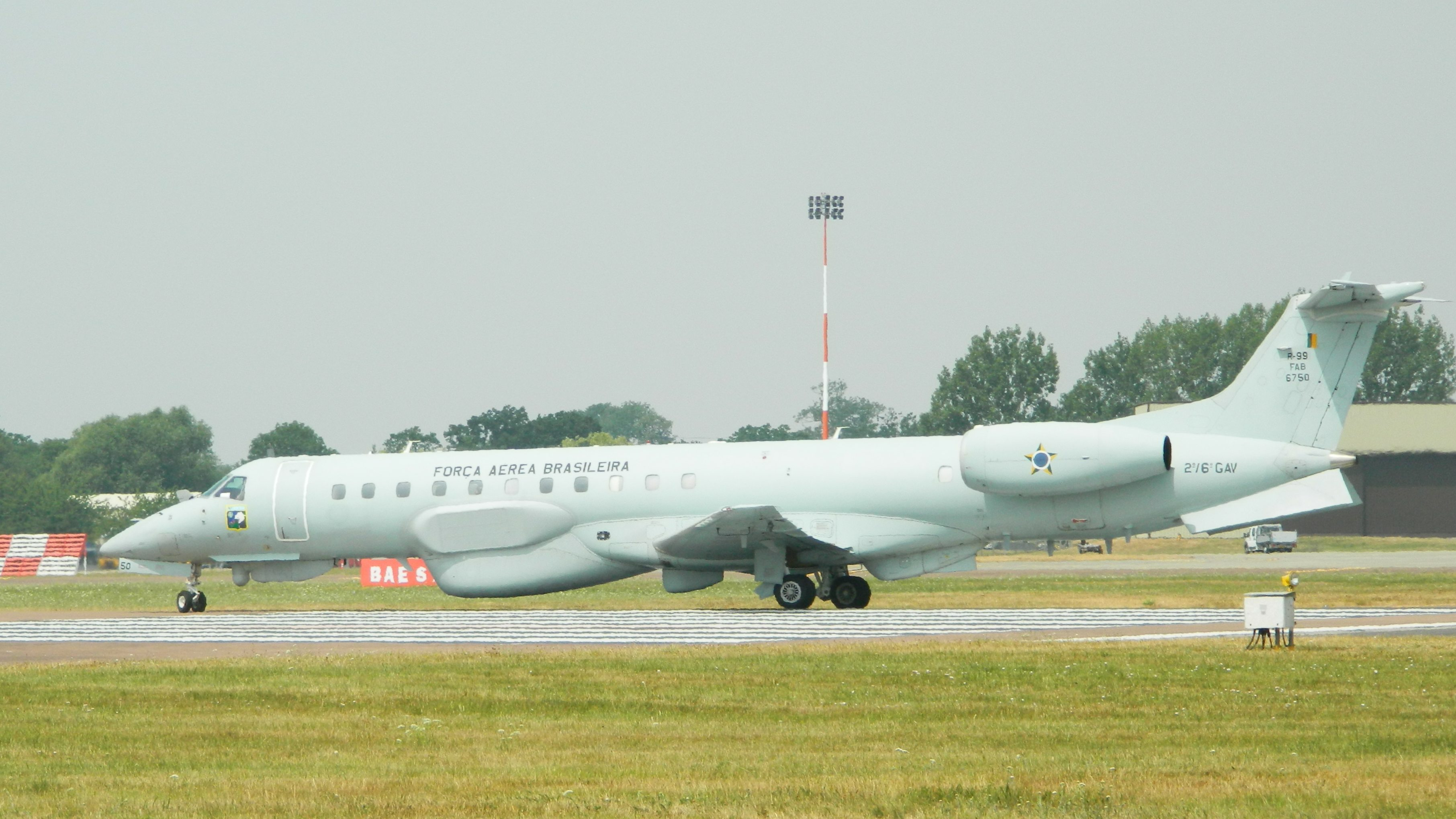 Brazillan Air Force Embraer R-99B serial number 6750 departs RAF Fairford on the Royal International Air Tattoo departure day Monday 22 July 2013.